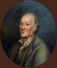 Didier Diderot (1675–1759), maître coutelier Langres (Champagne-Ardenne, France). Father of Denis Diderot.